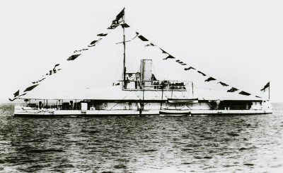 HMS Magdala